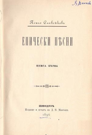 Cover of the book "Epic Songs" (1896), Pencho Slaveykov